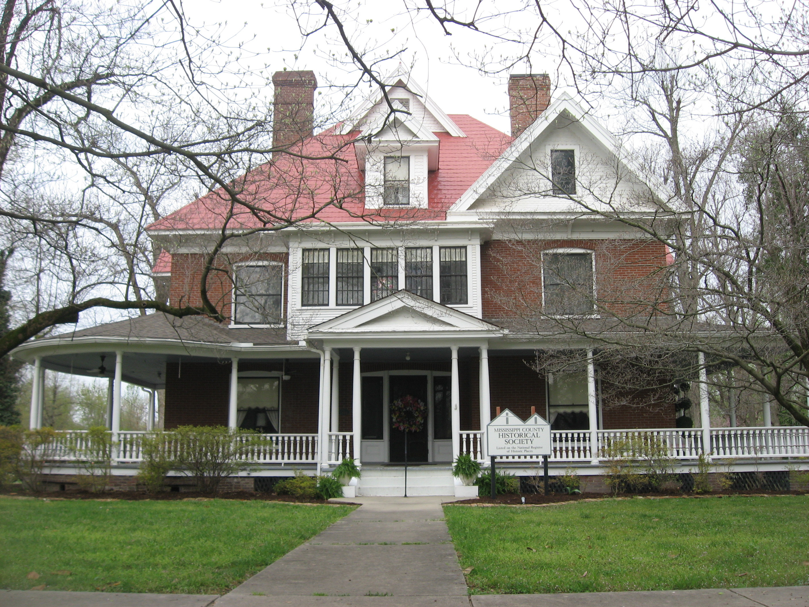 Front of the Moore House, located at 403 N. Main Street in Charleston, Missouri, United States. Built in 1899, it is listed on the National Register of Historic Places.